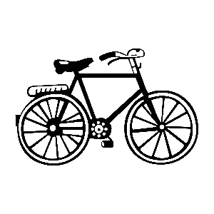 Cycle Symbol used in Indian General/Local Elections